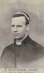 Erith Gwyn Nicholls Wales international rugby player, Cardiff club player